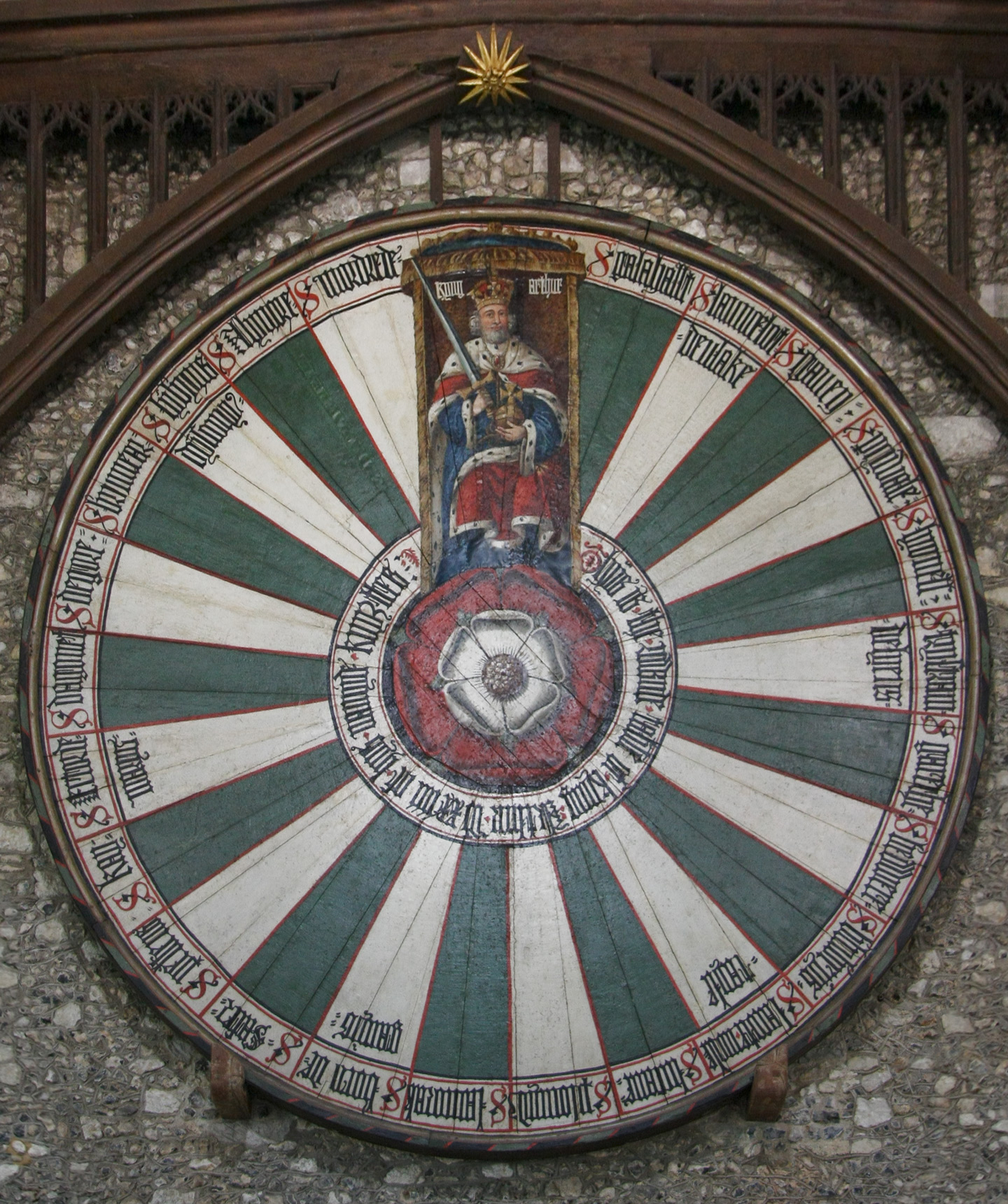 Picture of the painted table placed in the Great Hall of Winchester Castle, representing the Round Table of legendary King Arthur